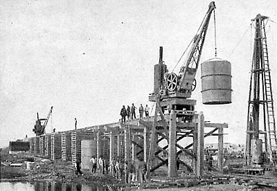 Construction works in the Neuquen Cipolletti during 1901.